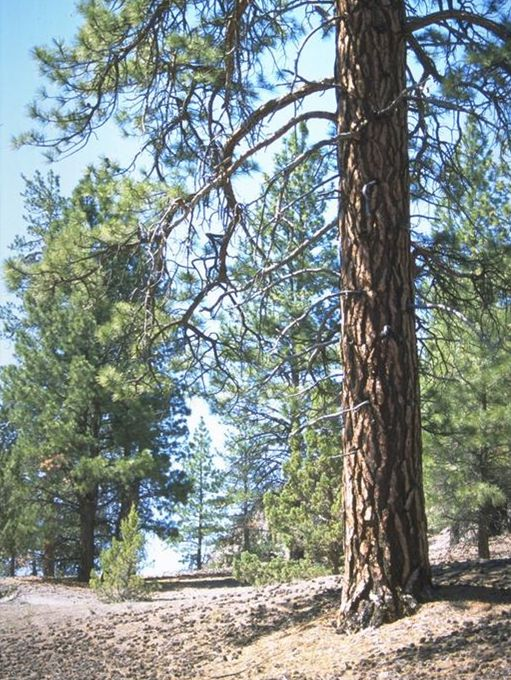 Old growth Ponderosa pines (Pinus ponderosa) — in Lost Forest Research Natural Area in northern Lake County, Oregon. The area is administered by the Lakeview District of the Bureau of Land Management